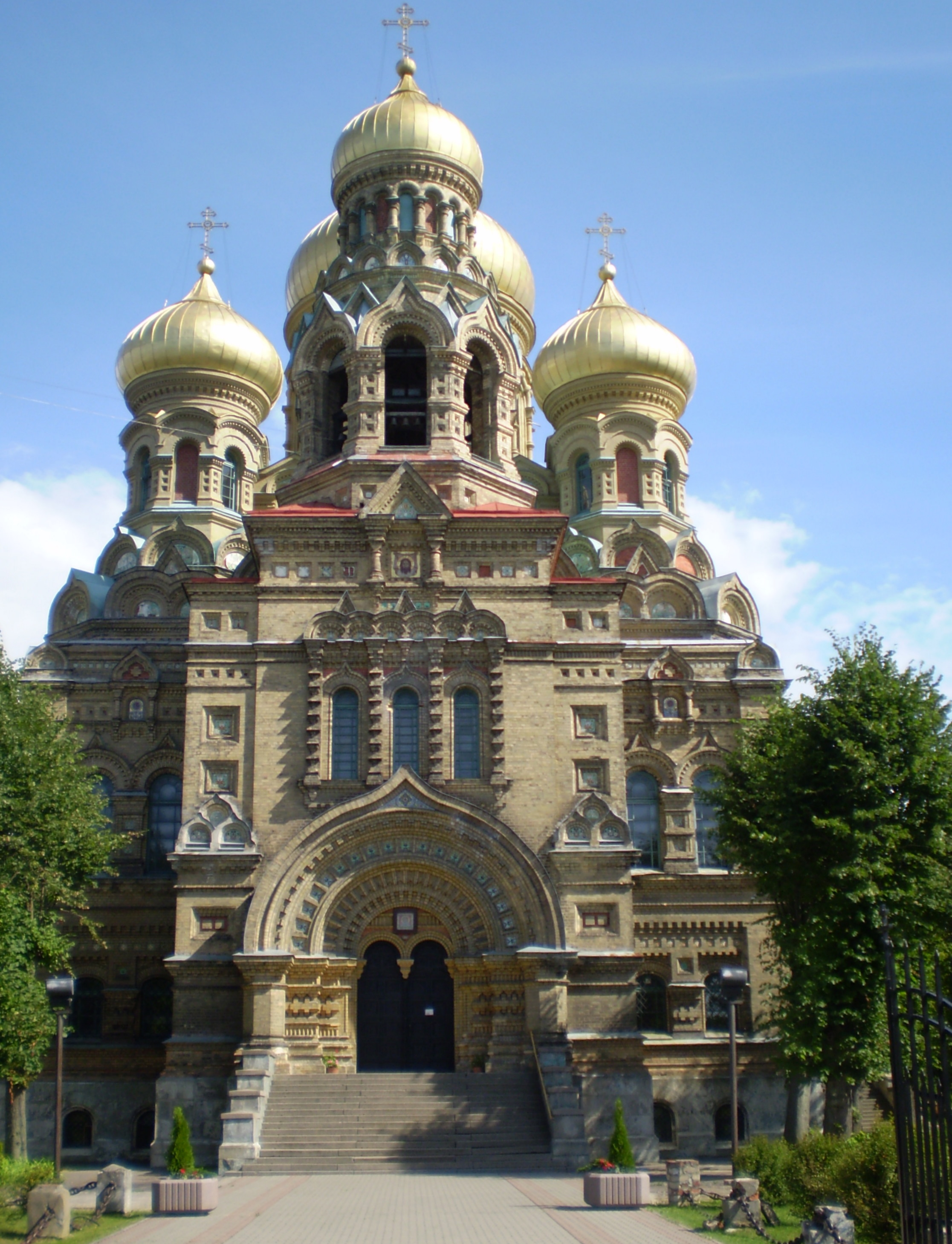 Karosta orthodox church in Liepaja, Latvia.